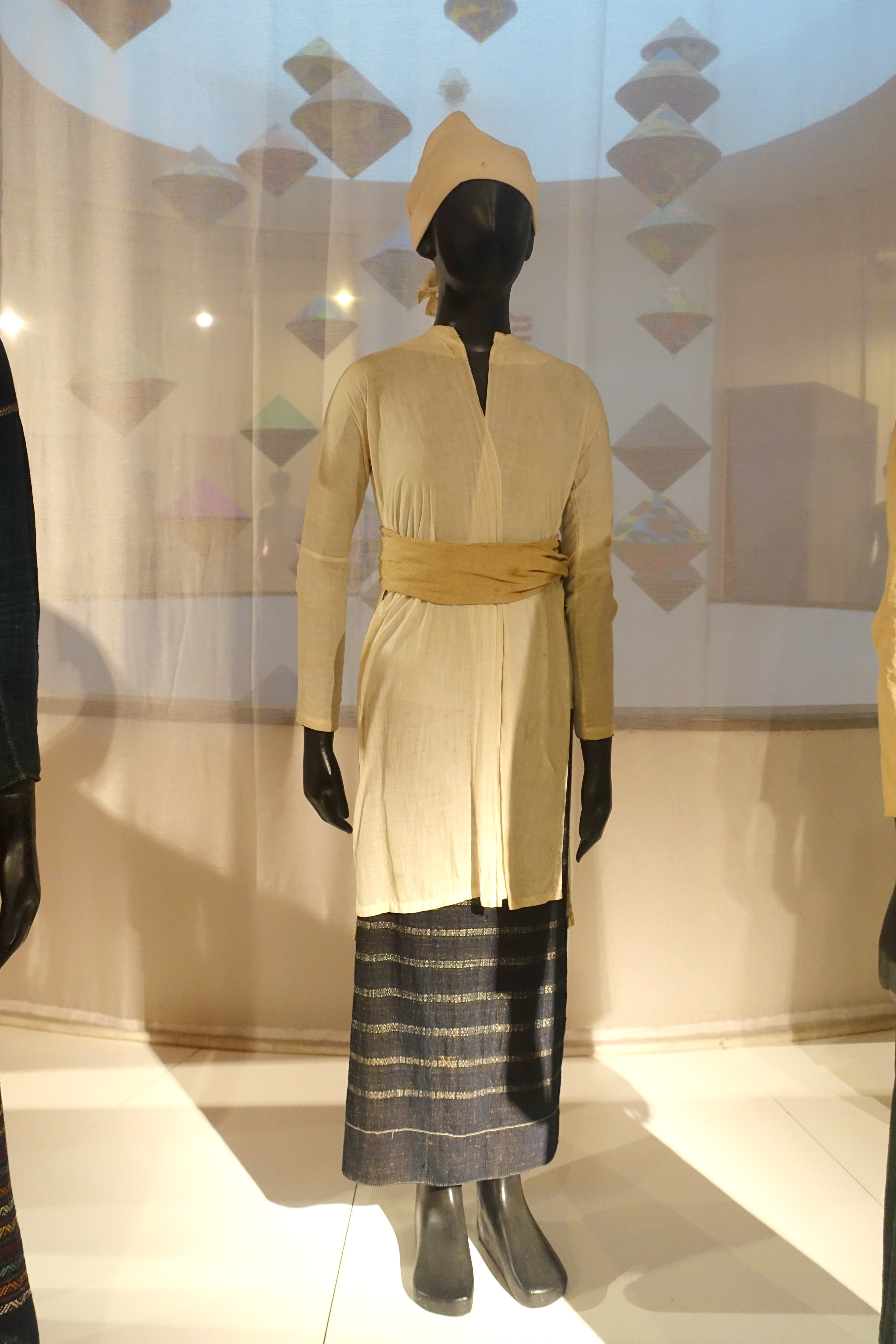 Exhibit in the Vietnamese Women's Museum, Hanoi, Vietnam.